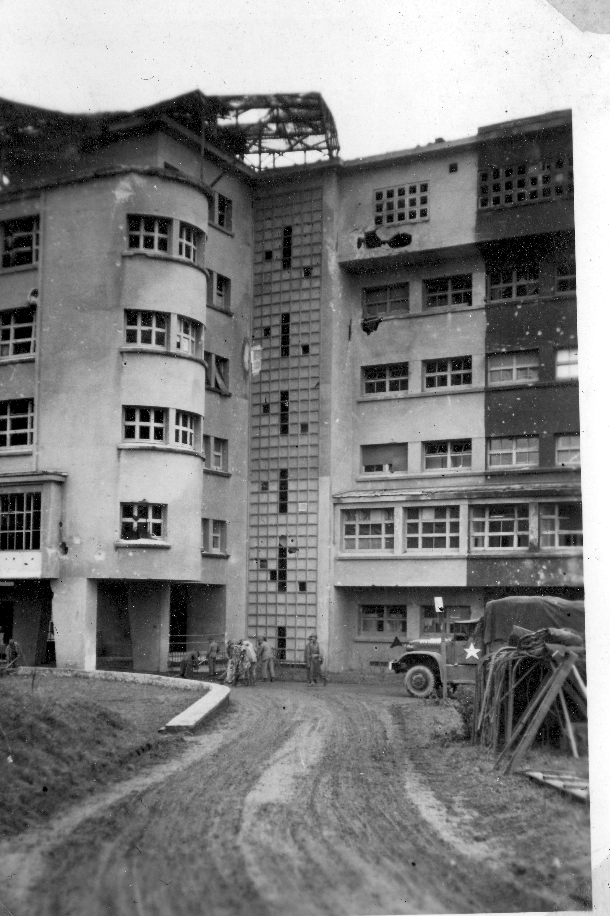 360th Engineer Aviation Battalion Company D in Europe from Camp Clayborne Louisiana August 1942 to September 1944. England, Wales, Normandy and Brest France. Military Hospital at Brest France October 1944